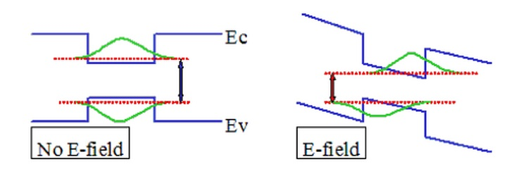 Basic QCSE